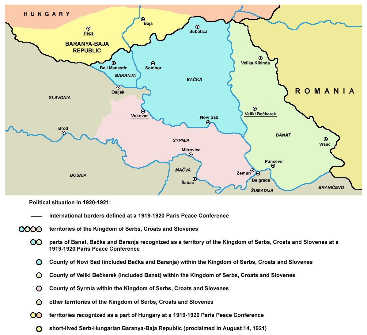 historical map of Banat, Bačka, Baranja and Syrmia within the Kingdom of Serbs, Croats and Slovenes in 1920-1921 and short-lived Baranya-Baja Republic in 1921